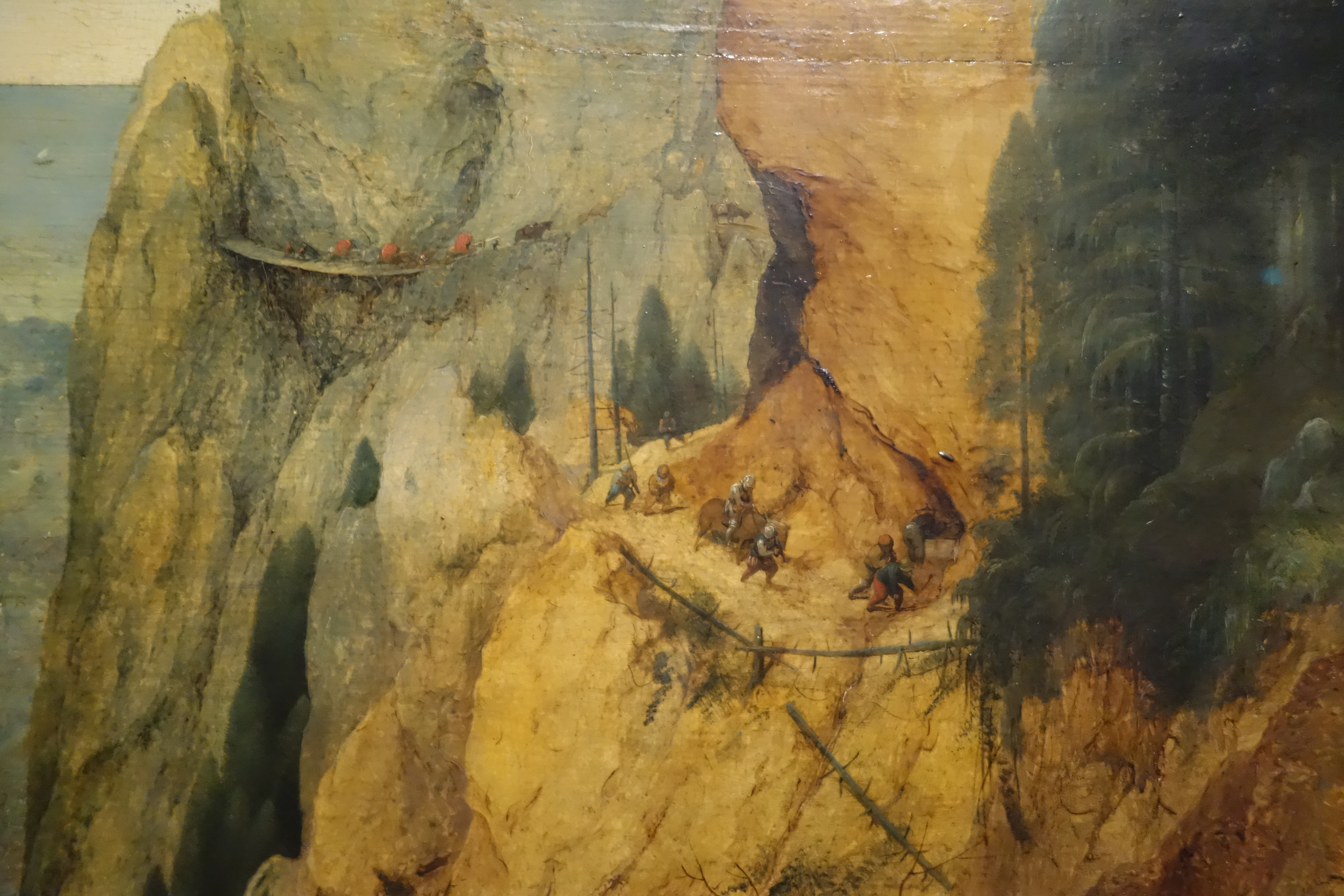 Pieter Bruegel the Elder, The conversion of saul, 1567 - detail